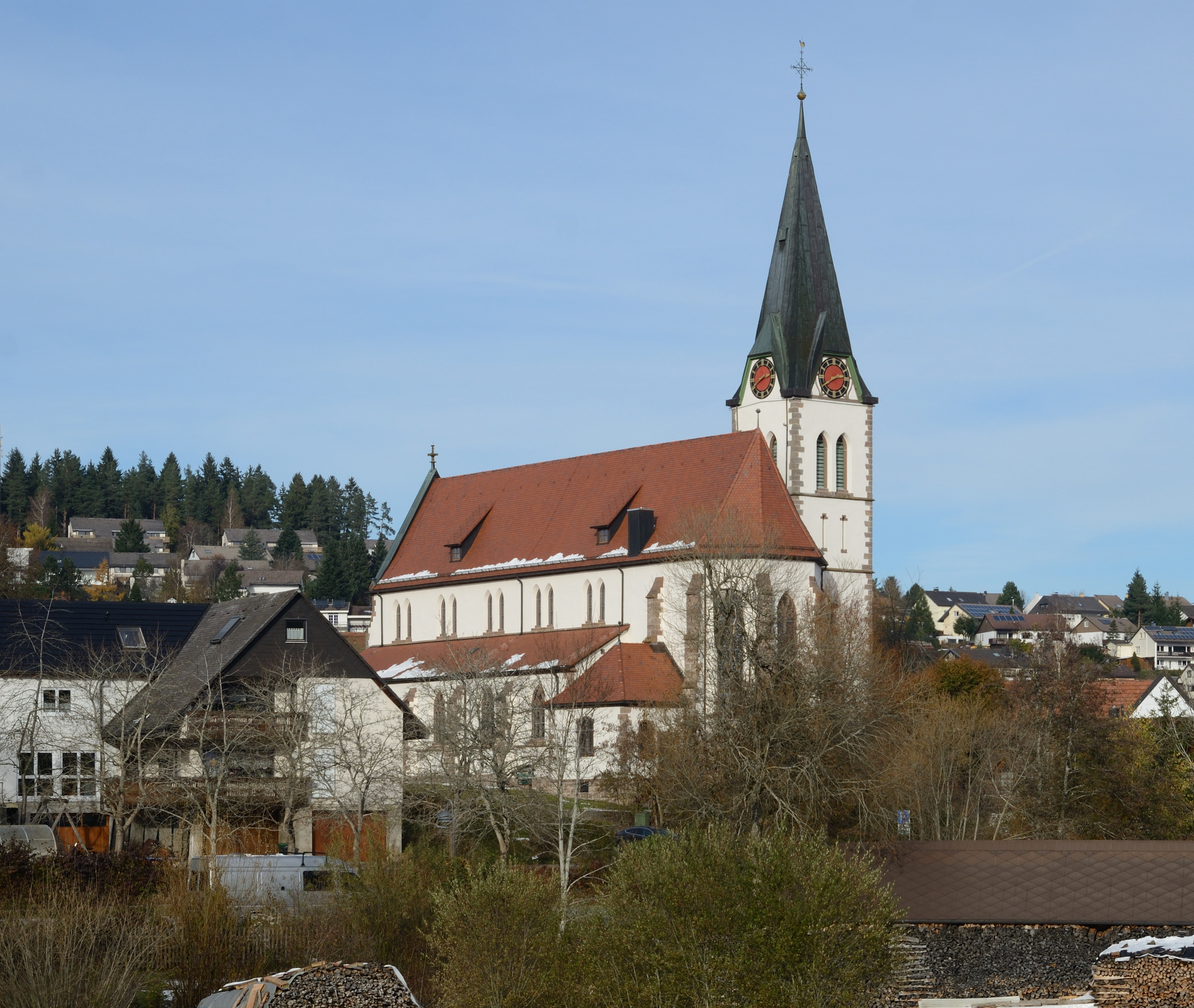 Unterkirnach: Saint Jacobus Church